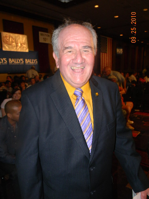 HBO commentator Harold Lederman ringside at Bally's Atlantic City